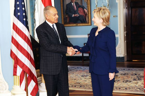 Secretary Clinton met with Egyptian Foreign Minister Ahmed Ali Aboul Gheit on February 12, 2009 at the U.S. State Department.